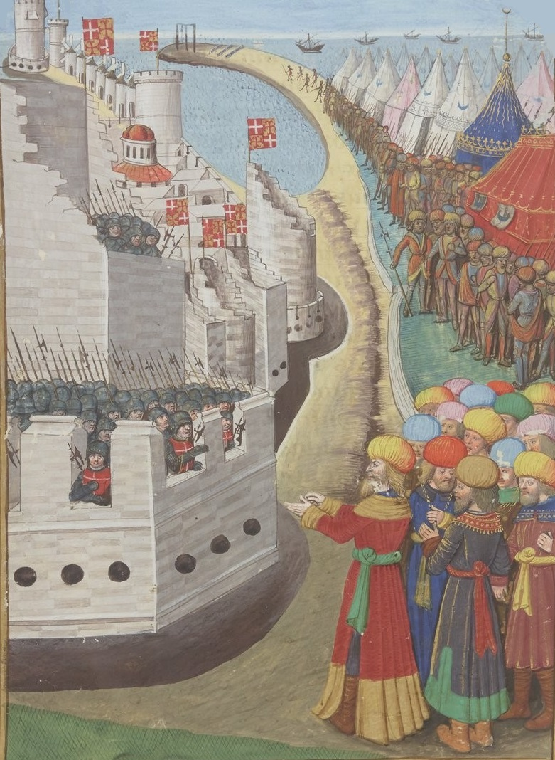 Guillaume Caoursin Latin 6067 62v